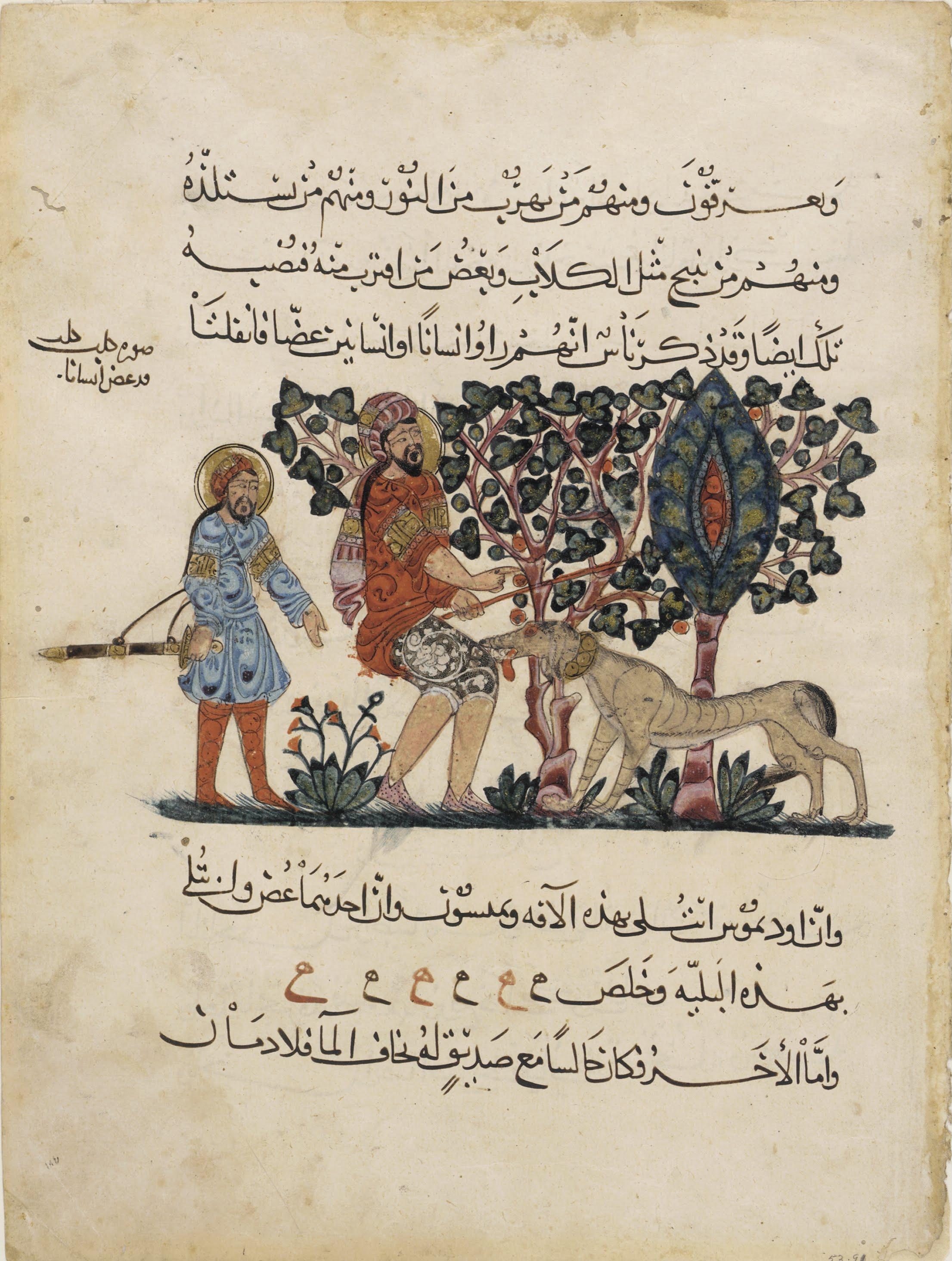 recto: outdoor scene with mad dog biting man